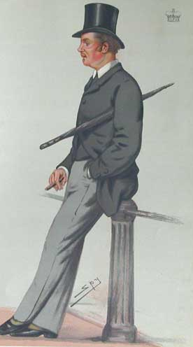 Caricature of John Beresford, 5th Marquess of Waterford. Caption read "The Great Man of Waterford".